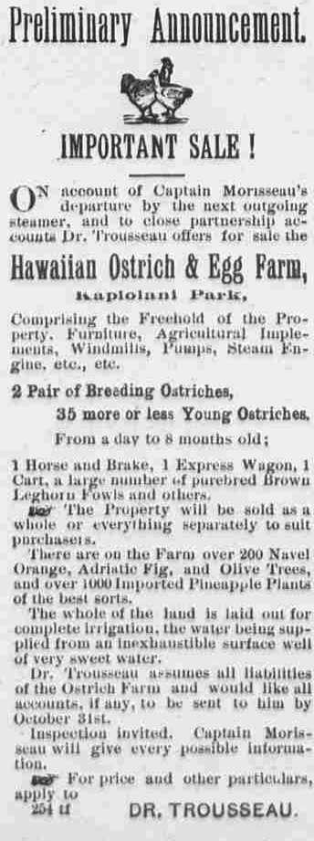 In the middle of Kapiolani Park, Dr. Trousseau raised 35 ostriches, as their feathers could be sold at a high price. He eventually ended the operation and sold the ostriches. Text: "Preliminary announcement. Important sale! On account of Captain Maorisseau's departure by the next outgoing steamer, and to close partnership accounts Dr. Trousseau offers for sale the Hawaiian Ostrich & Egg Farm, Kapiolani Park, Comprising the freehold of the property, furniture, agricultural implements, windmills, pumps, steam engine, etc., etc. 2 pair of breeding ostriches, 35 more or less young ostriches. From a day to 8 months old; 1 horse and brake, 1 express wagon, 1 cart, a large number of purebred brown leghorn fowls and others..." The Daily bulletin., January 19, 1892, Image 1 Text and picture from the University of Hawaii at Manoa Library at